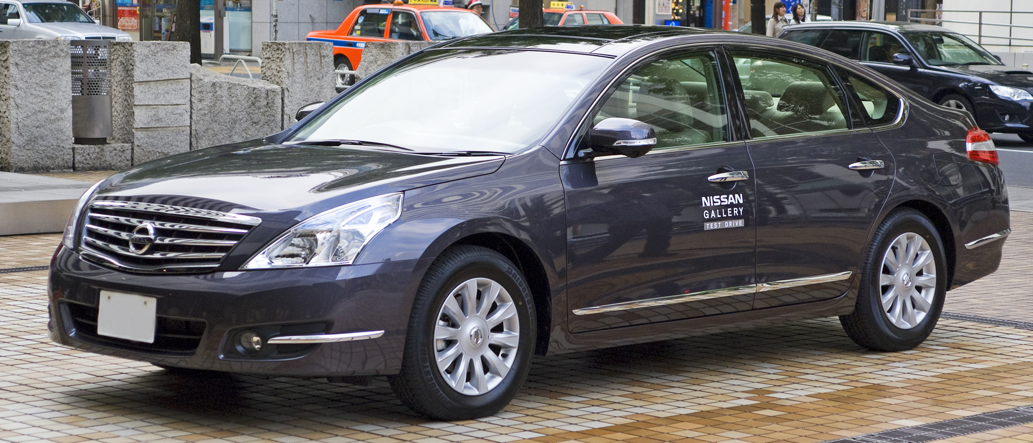 2008 2nd generation Nissan Teana photographed in Nissan Gallery (Chuo, Tokyo)